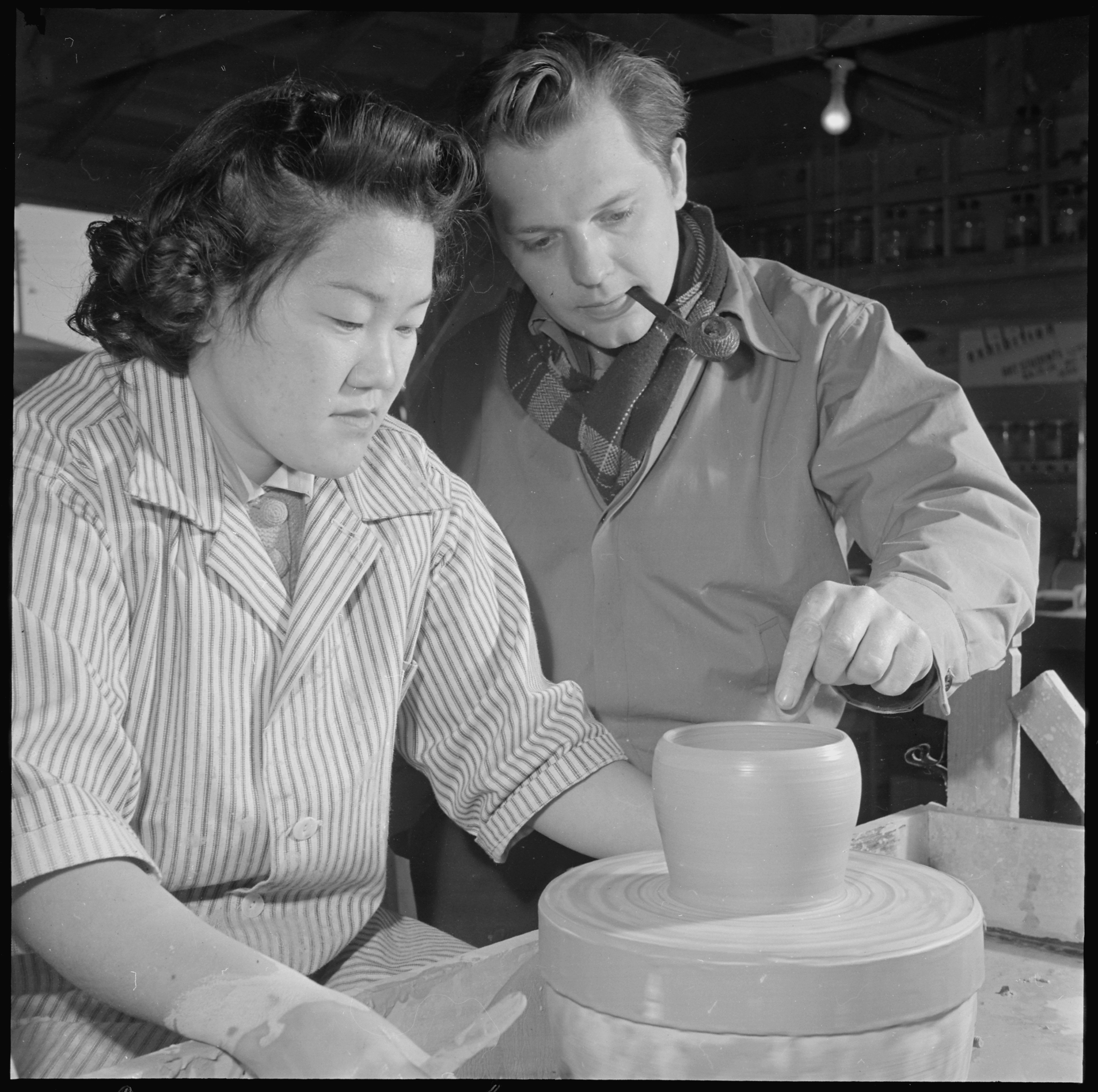 Scope and content: The full caption for this photograph reads: Heart Mountain Relocation Center, Heart Mountain, Wyoming. Minnie Negoro, an art student at the University of California in Los Angeles before the evacuation of the persons of Japanese ancestry from west coast defense areas, is taking up the art of the potters wheel at the Heart Mountain Relocation Center. Ceramics expert and artists, Daniel Rhodes, is instructing several resident students for future work in the Ceramics Plant.